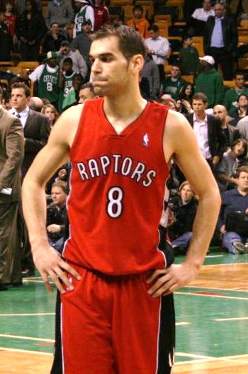 Jose Calderon, Toronto Raptors